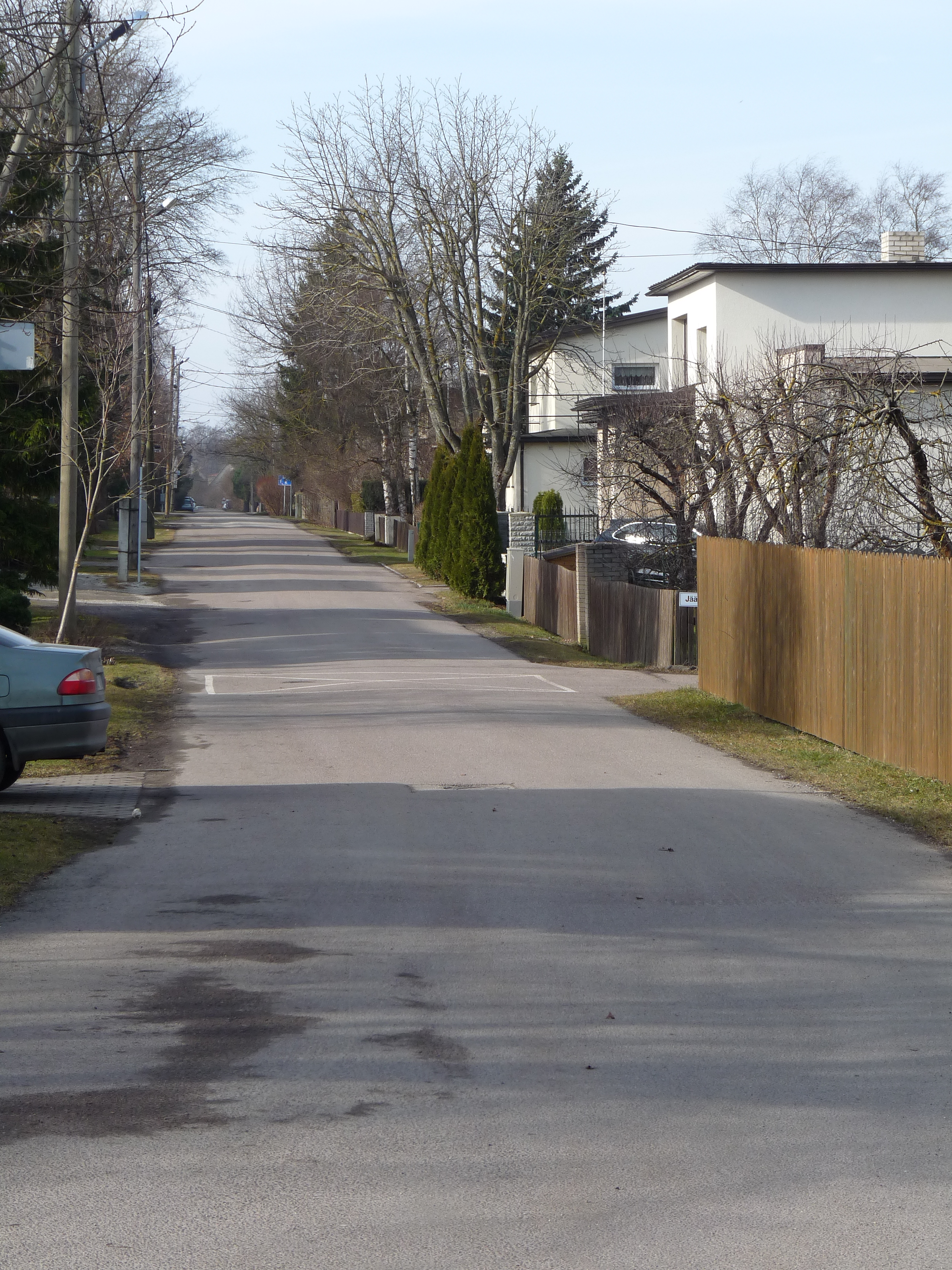 Jääraku street in Tallinn, Estonia